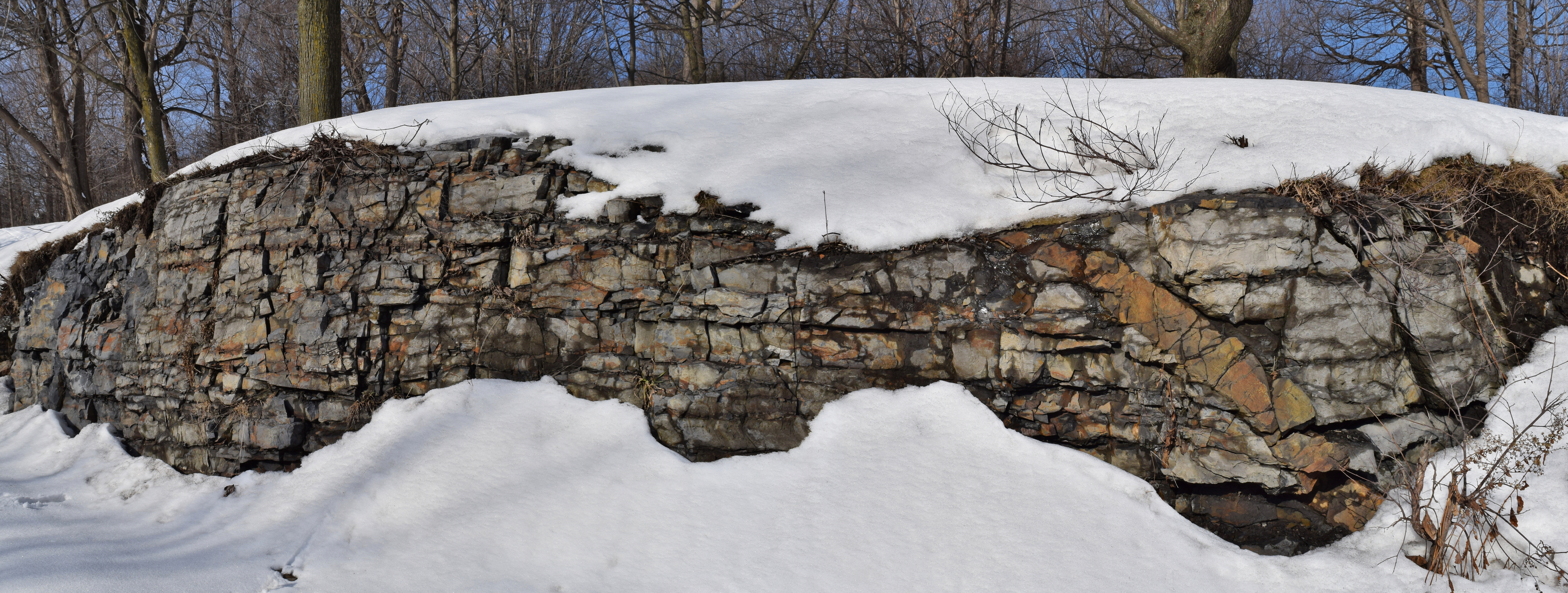 Limestones of the Tetreauville Formation outcropping at the base of Mount Royal along Pine Avenue West.